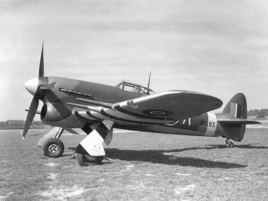 A Royal Air Force Hawker Typhoon Mk.IB (EK183, "US-A") of No. 56 Squadron RAF at RAF Matlaske, Norfolk (UK), on 21 April 1943. This aircraft was flown by Squadron Leader T.H.V Pheloung (Oamaru, New Zealand).